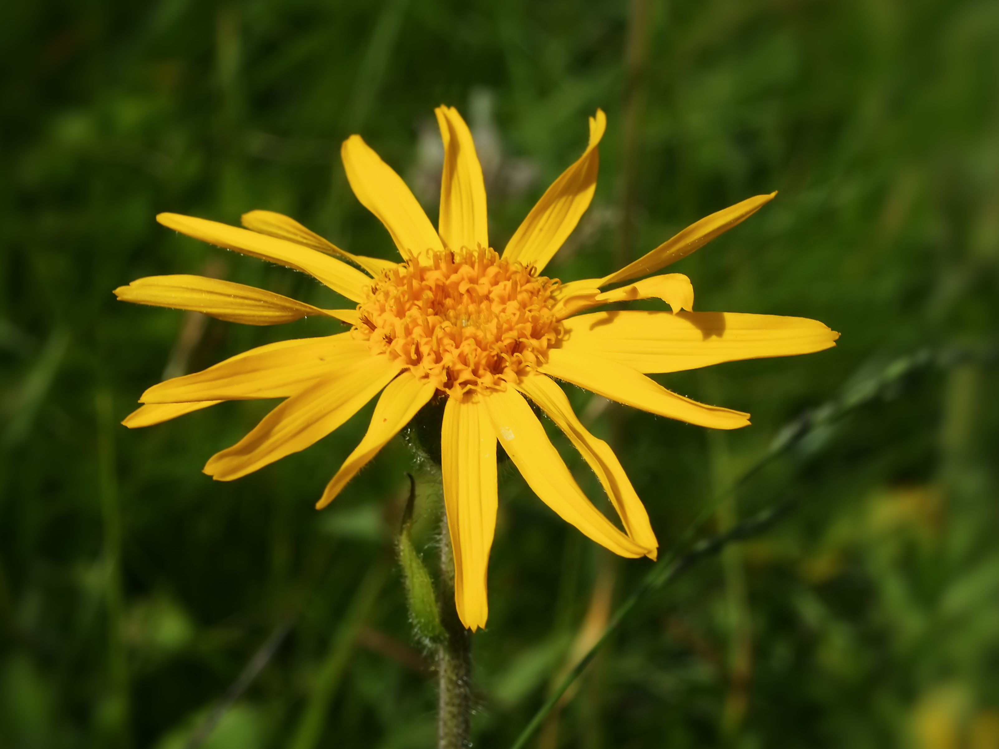 Wolf's bane, close to Unterbäch, Switzerland